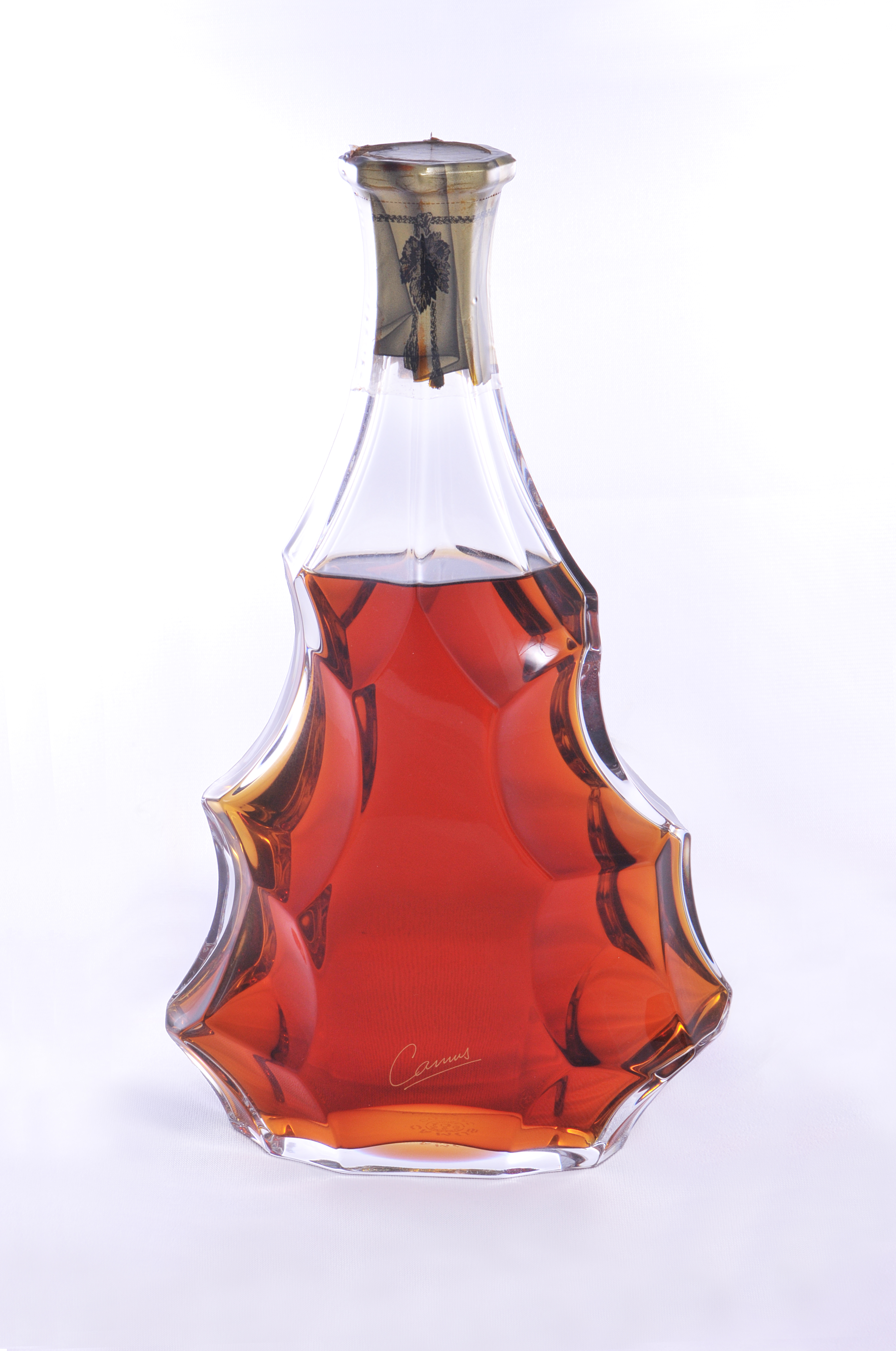 Camus Jubilee Cognac 70cl